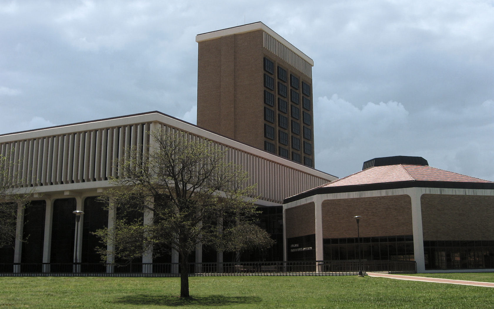 Description: The Rawls College of Business at Texas Tech University in Lubbock, Texas, US * Source: Photograph taken for use on Texas Tech University's Wikipedia entry. * Date: March 4, 2007 * Location: Lubbock, Texas (Texas Tech University campus) * Author: Elred * Permission: I release all rights to this image. * Other versions of this file: none